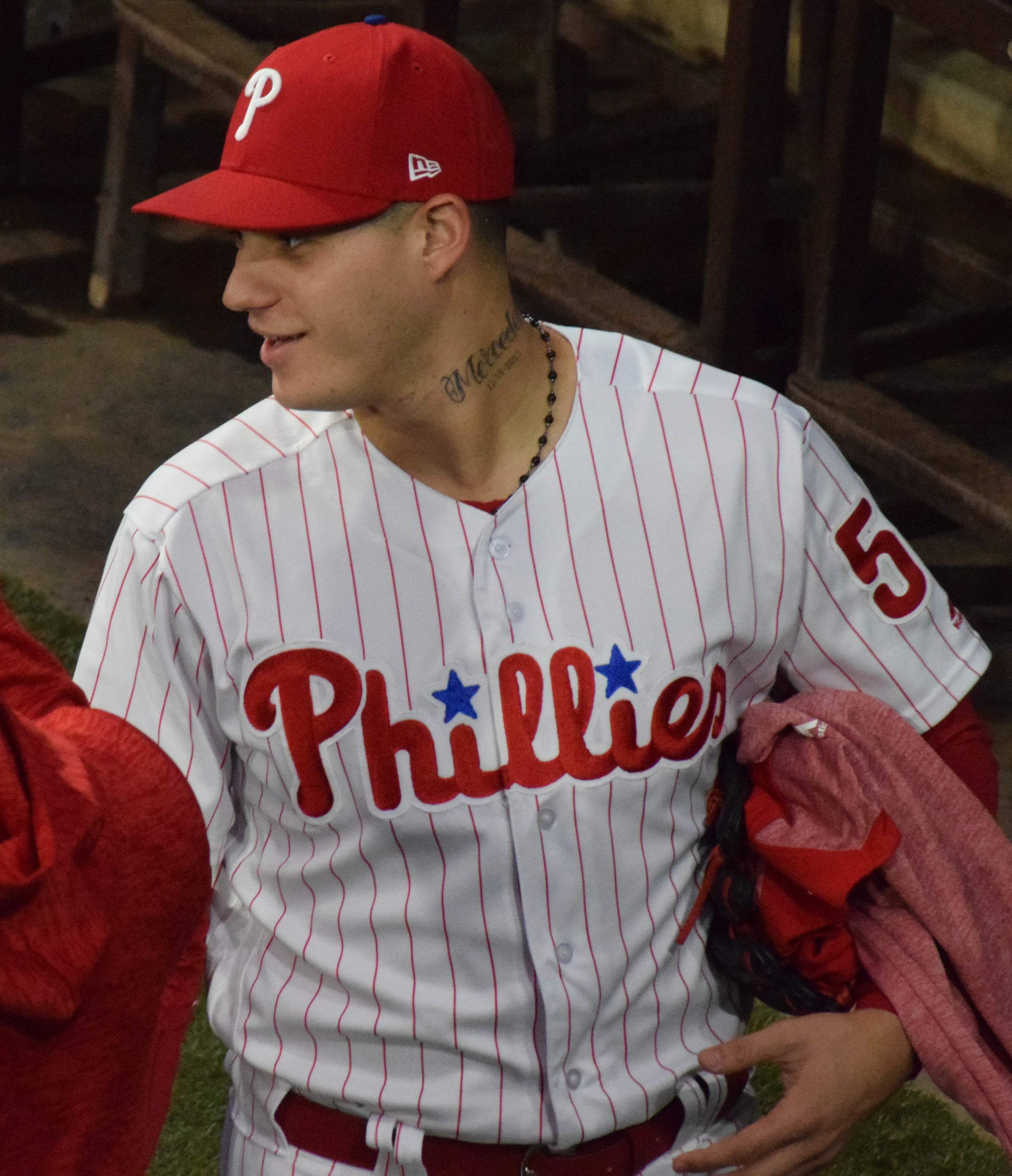 Yacksel Rios in the Philadelphia Phillies bullpen at Citizens Bank Park in Philadelphia in 2018